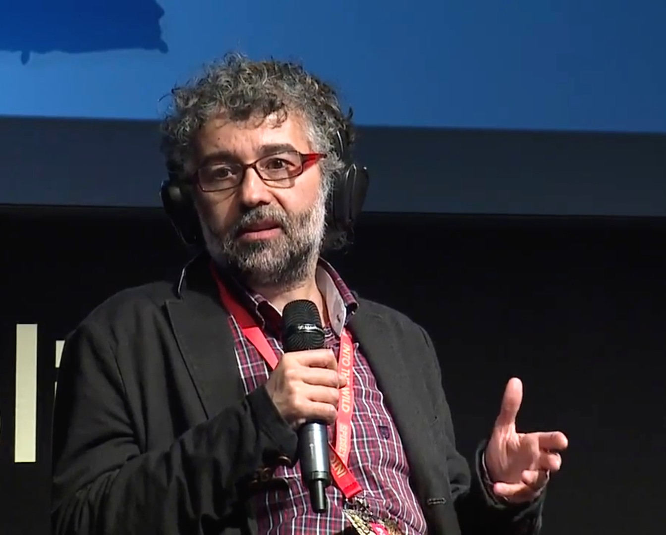 Find out more at: Today freedom of the press and freedom of expression are under serious threat in numerous countries. This threat is present in authoritarian states as well as in democracies generally considered to be well established and stable. Can new online media and much-touted grassroots journalism offer a way out? Solana Larsen Erol Önderoglu Reporters Without Borders / Bianet Andrei Soldatov Sally Broughton Micova Creative Commons Attribution-ShareAlike 3.0 Germany (CC BY-SA 3.0 DE)